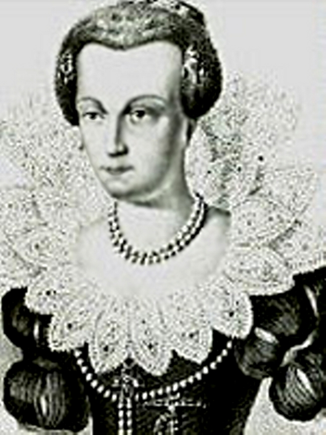 Maria of the Palatinate-Simmern, Princess of Sweden